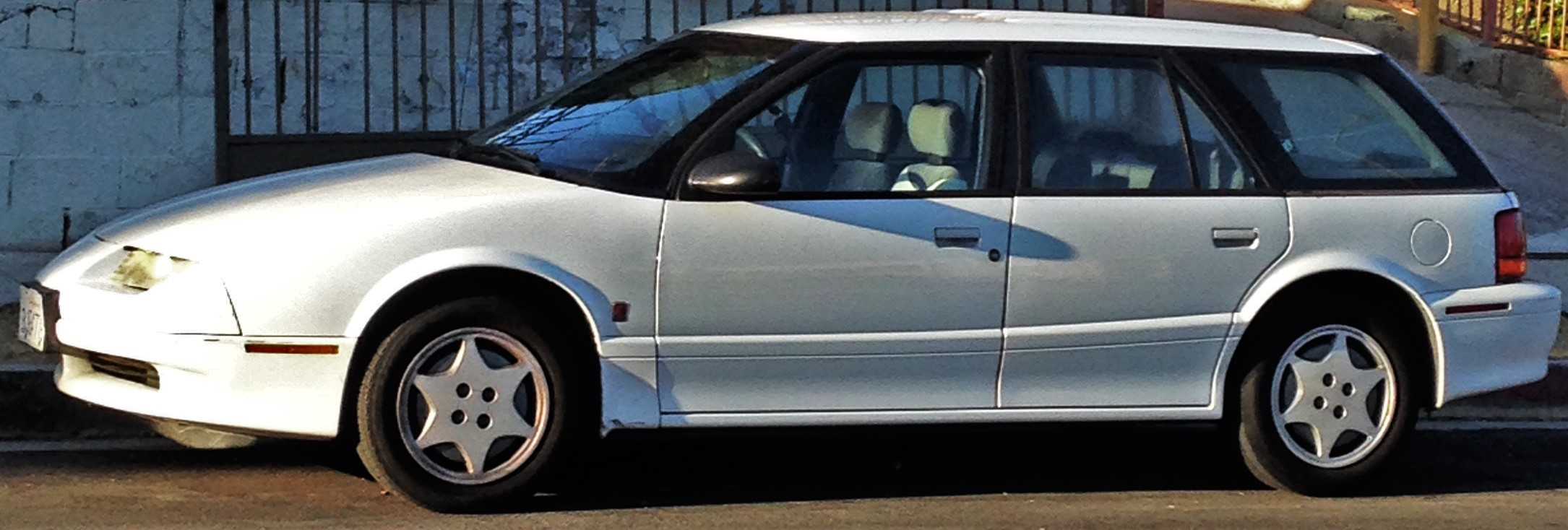 An typical early 90's Saturn. This is a less common wagon version of the far more popular sedan.